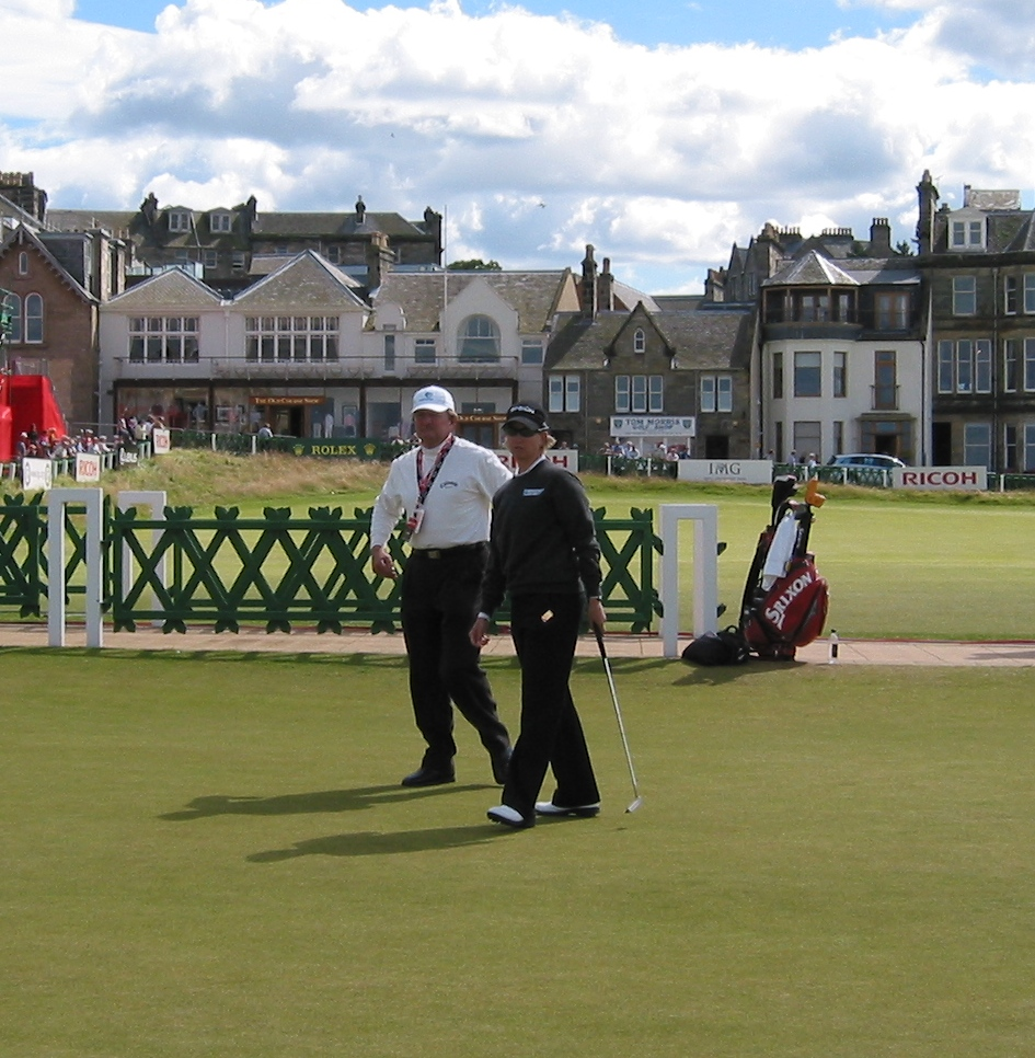 Karrie Webb at 2007 Womens British Open at St. Andrews